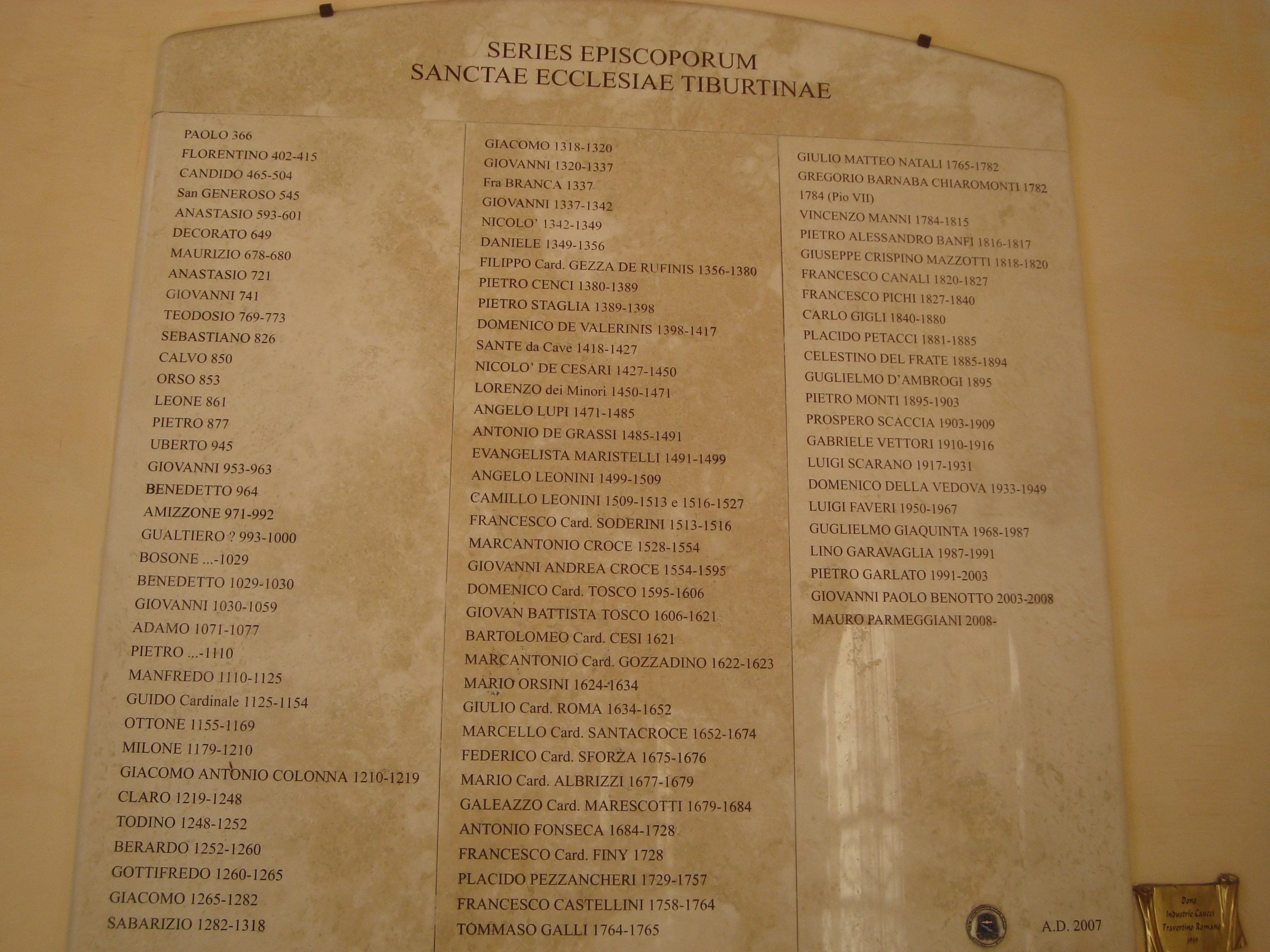 List of the bishops of Tivoli as mentionned in the plaque under the portico of the Cathedral San Lorenzo di Tivoli.